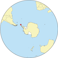 Location map for the Livingston Island.